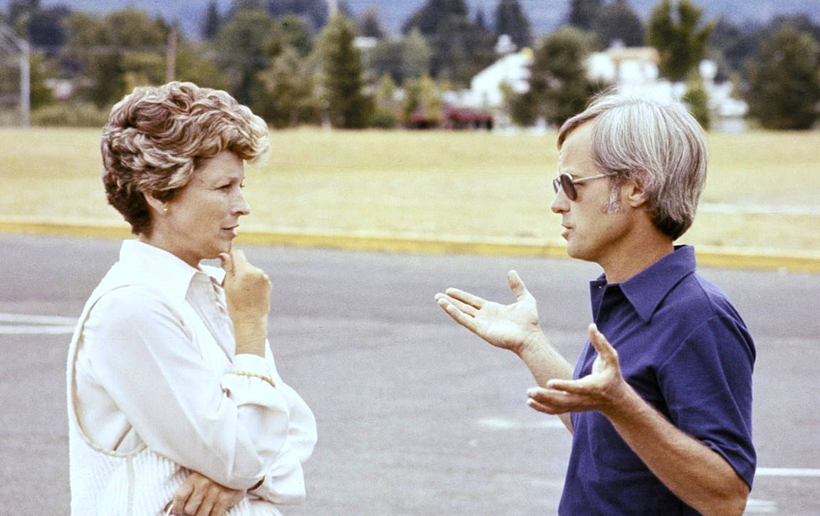 Nancy Ryles, then Oregon State Representative for District 5, talks with Tom Marsh, her predecessor in the position, at Sunset High School in 1979. Ryles later served in the Oregon Senate and on the Oregon Public Utility Commission.